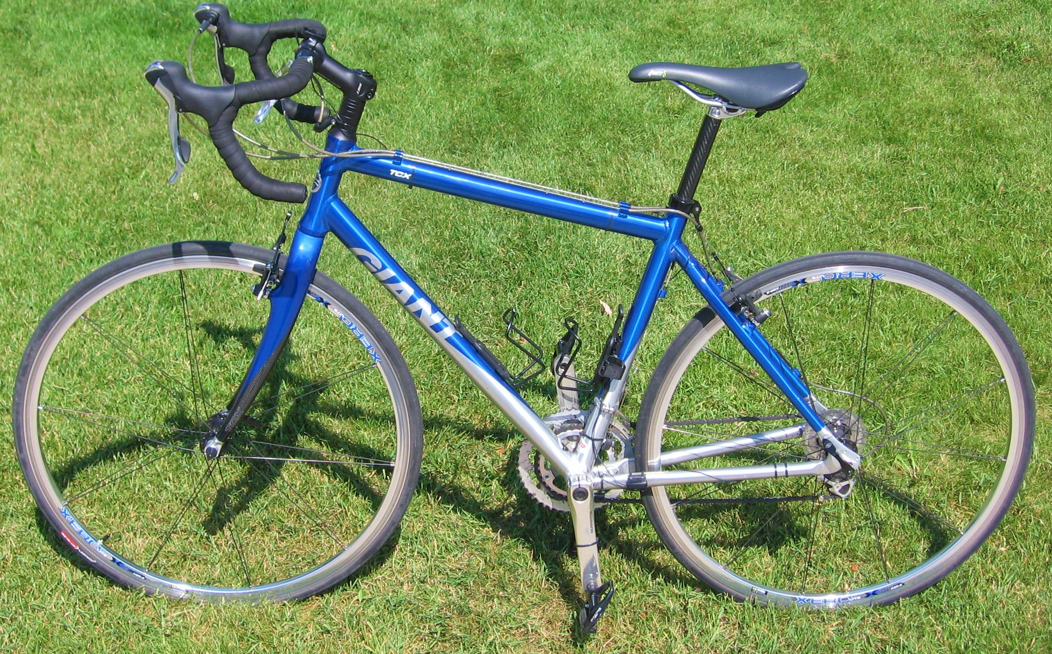 My Giant TCX Cyclocross fitted with the following: Nokian PCR Road tires VDO Cyclometer mount (2) Zefal water bottle holders Bontrager Stem Shimano PD-R540 clipless pedals Note this is not a typical cyclocross configured bicycle as it is lacking several components commonly found on a cyclocross bike. There are much better examples of cyclocross specific bikes to be seen than this bike which might be more accurately described as a hybrid or recreational road bicycle.